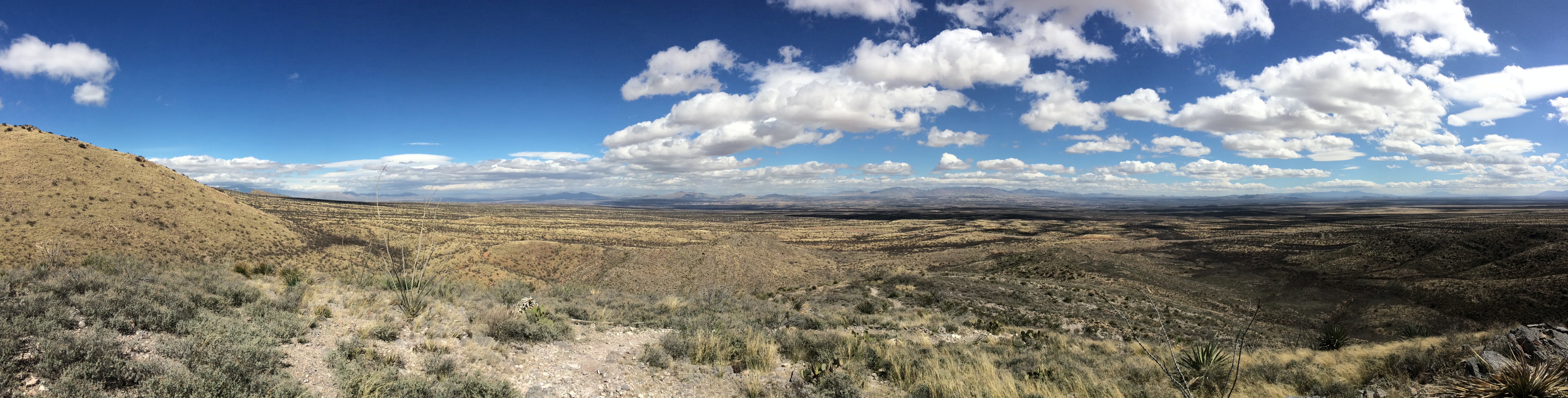 Wikipedia workshop and field trip with University of Arizona Geo Club